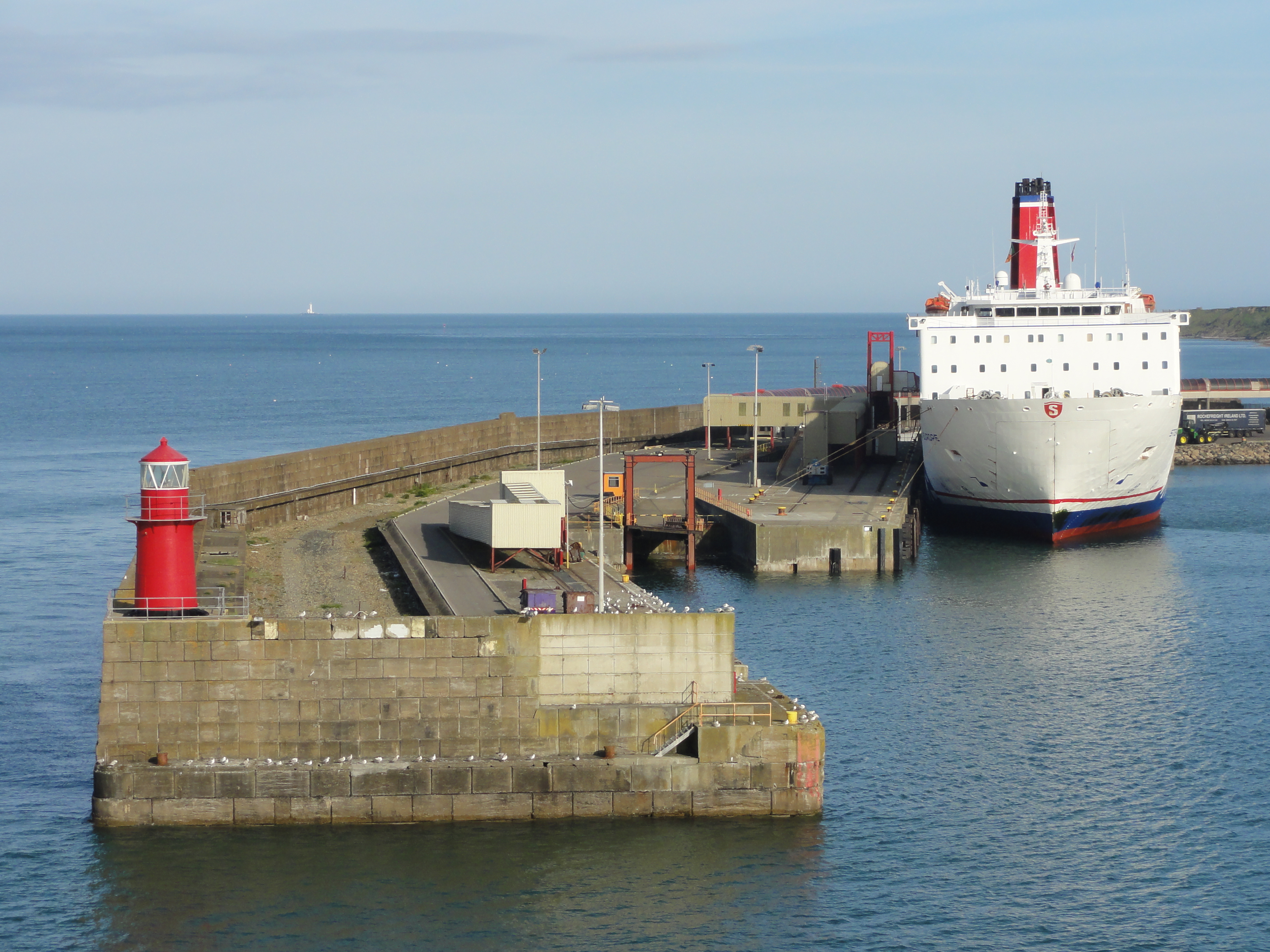 Rosslare Europort